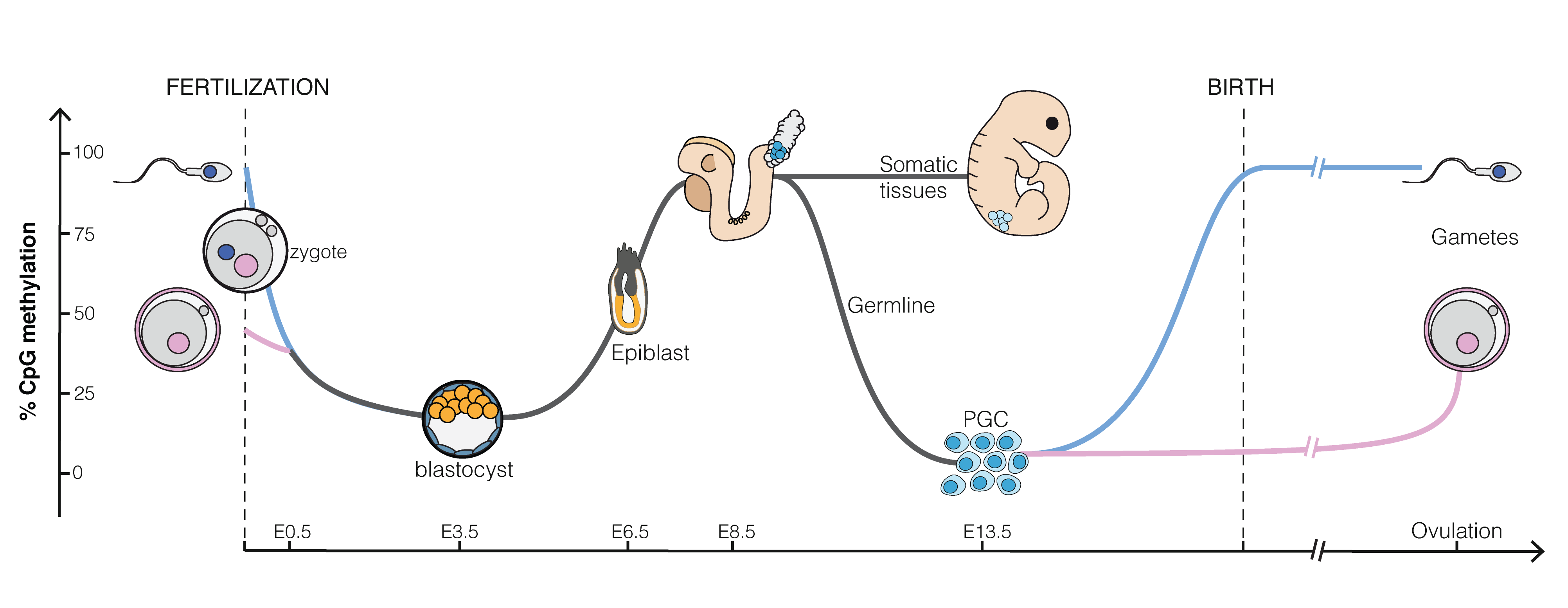 Dynamic of DNA methylation reprograming in mouse embryos